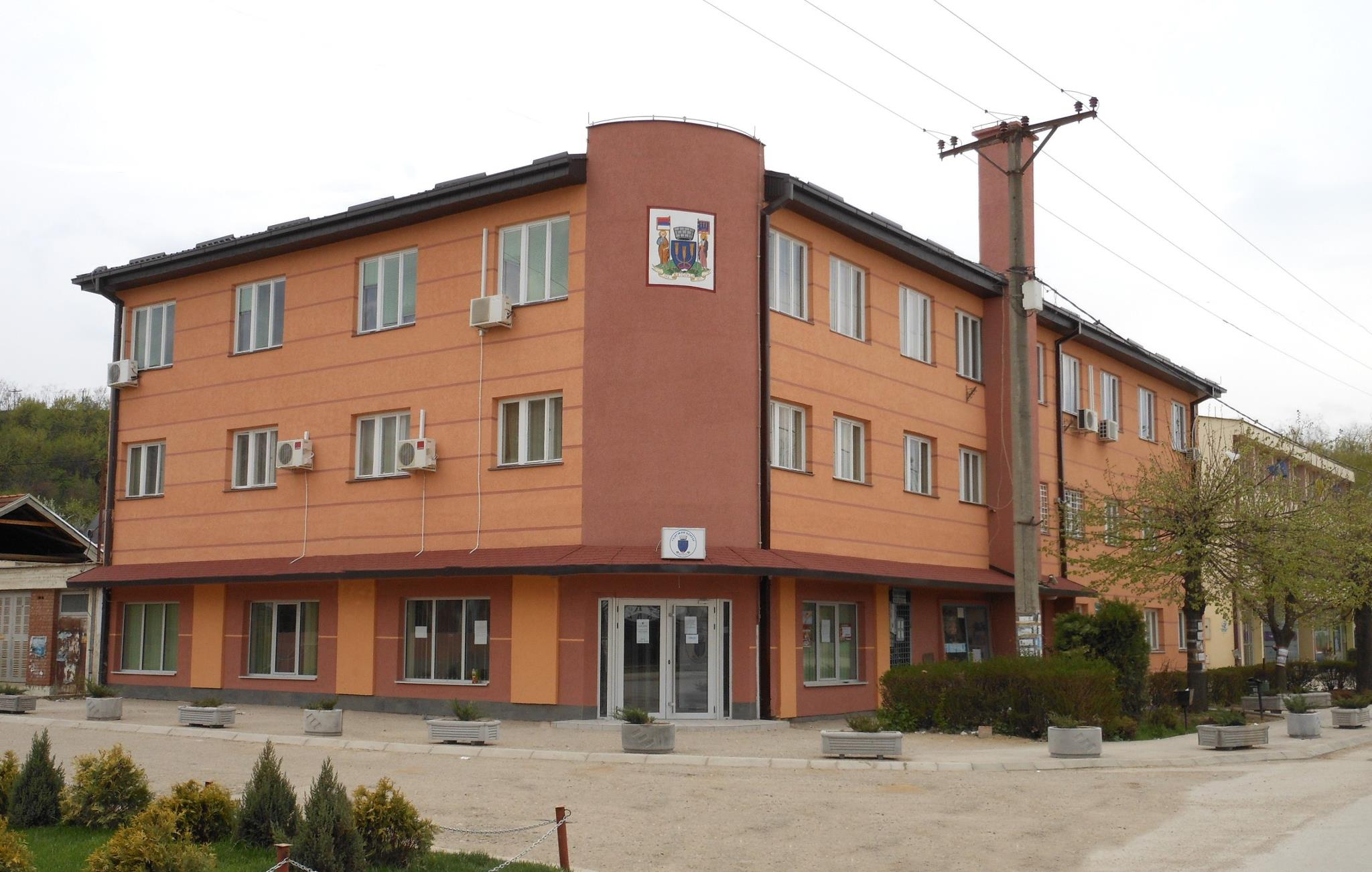 Building of the Municipality of Zitoradja